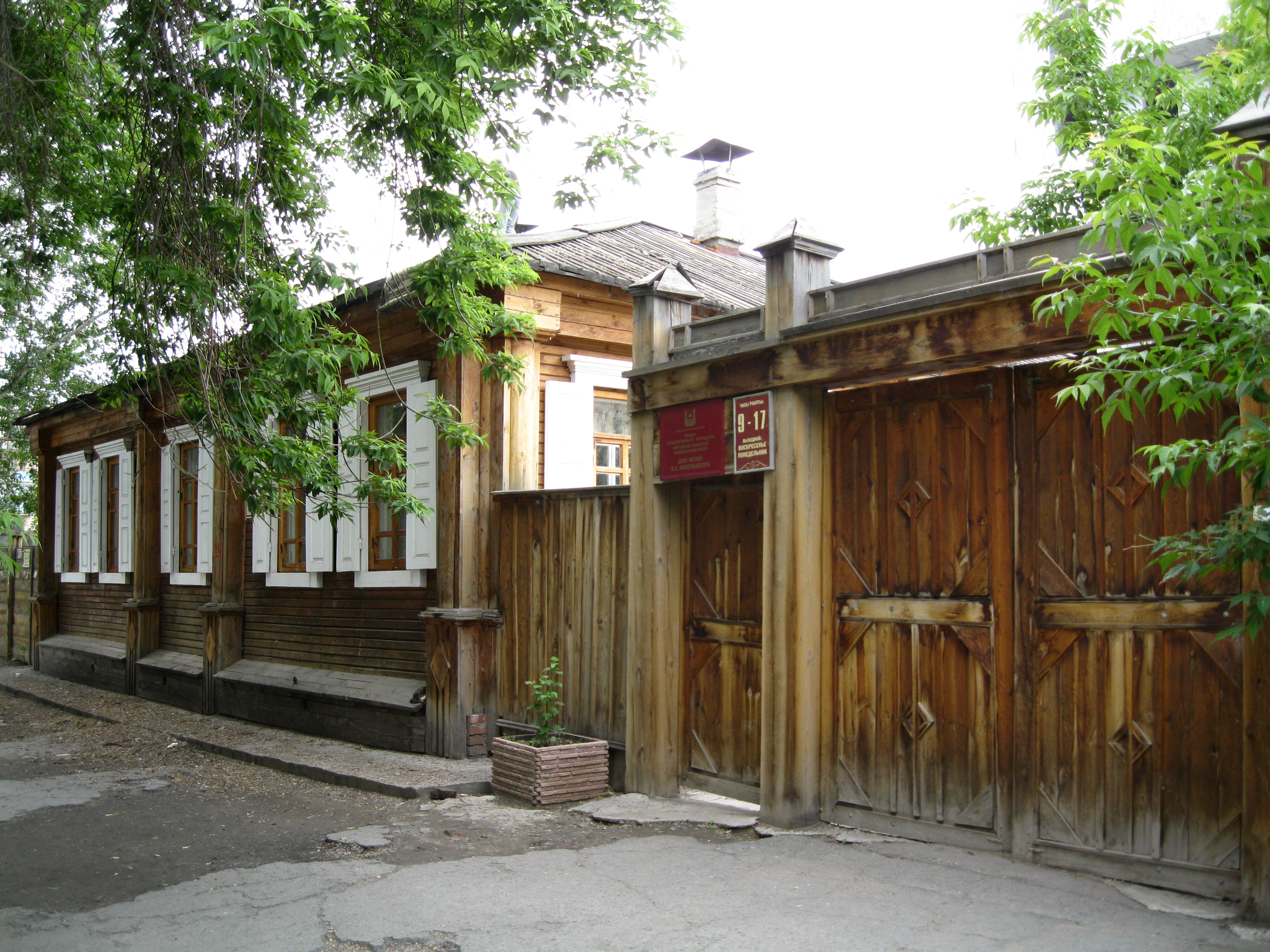 Wilhelm Küchelbecker's house-museum in Kurgan, Russia